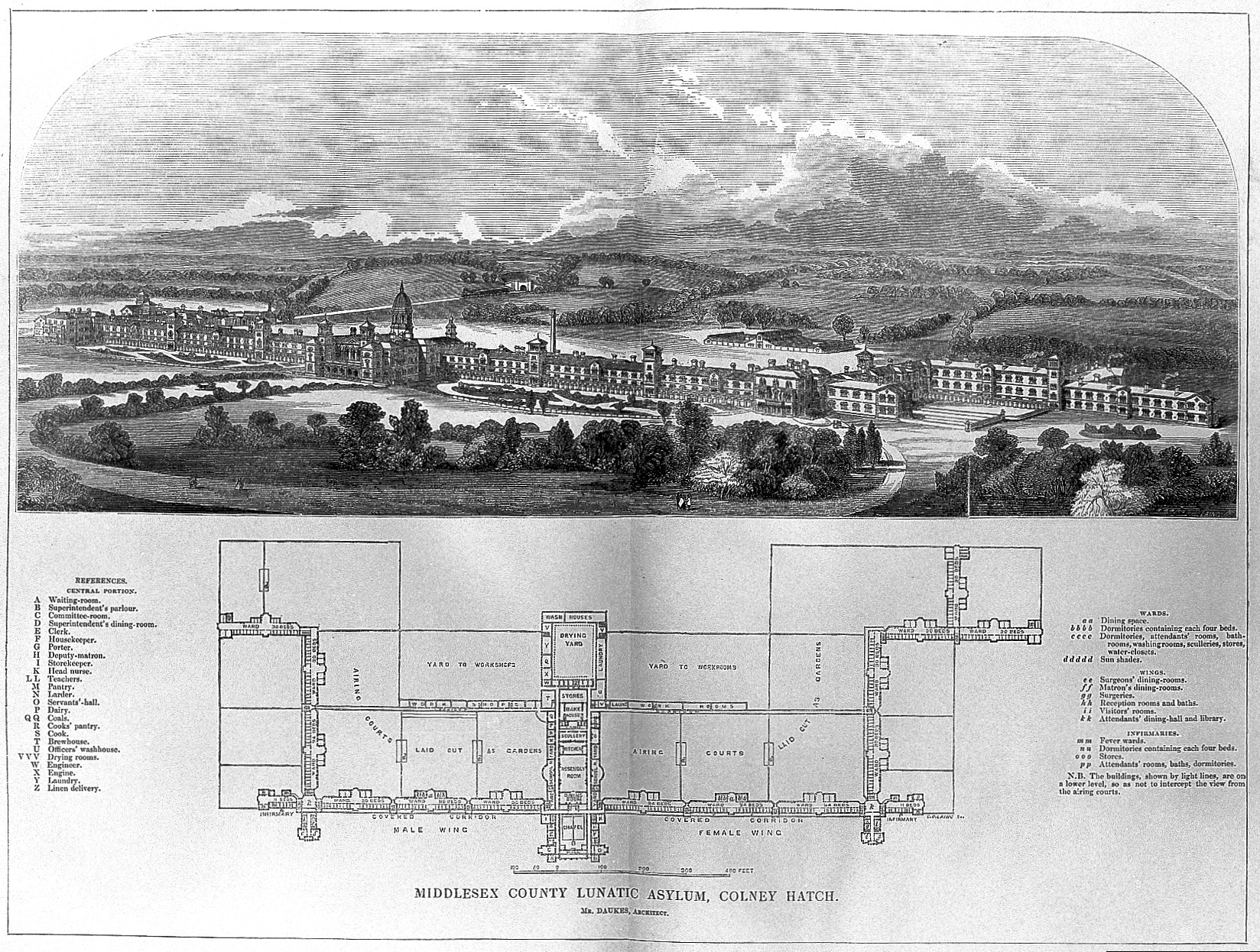 Middlesex County Lunatic Asylum, Colney Hatch, Southgate, Middlesex: bird's eye view with detailed floor plan and key. Wood engraving by Laing after Daukes. Iconographic Collections Keywords: Charles D. Laing; Samuel Whitfield Daukes